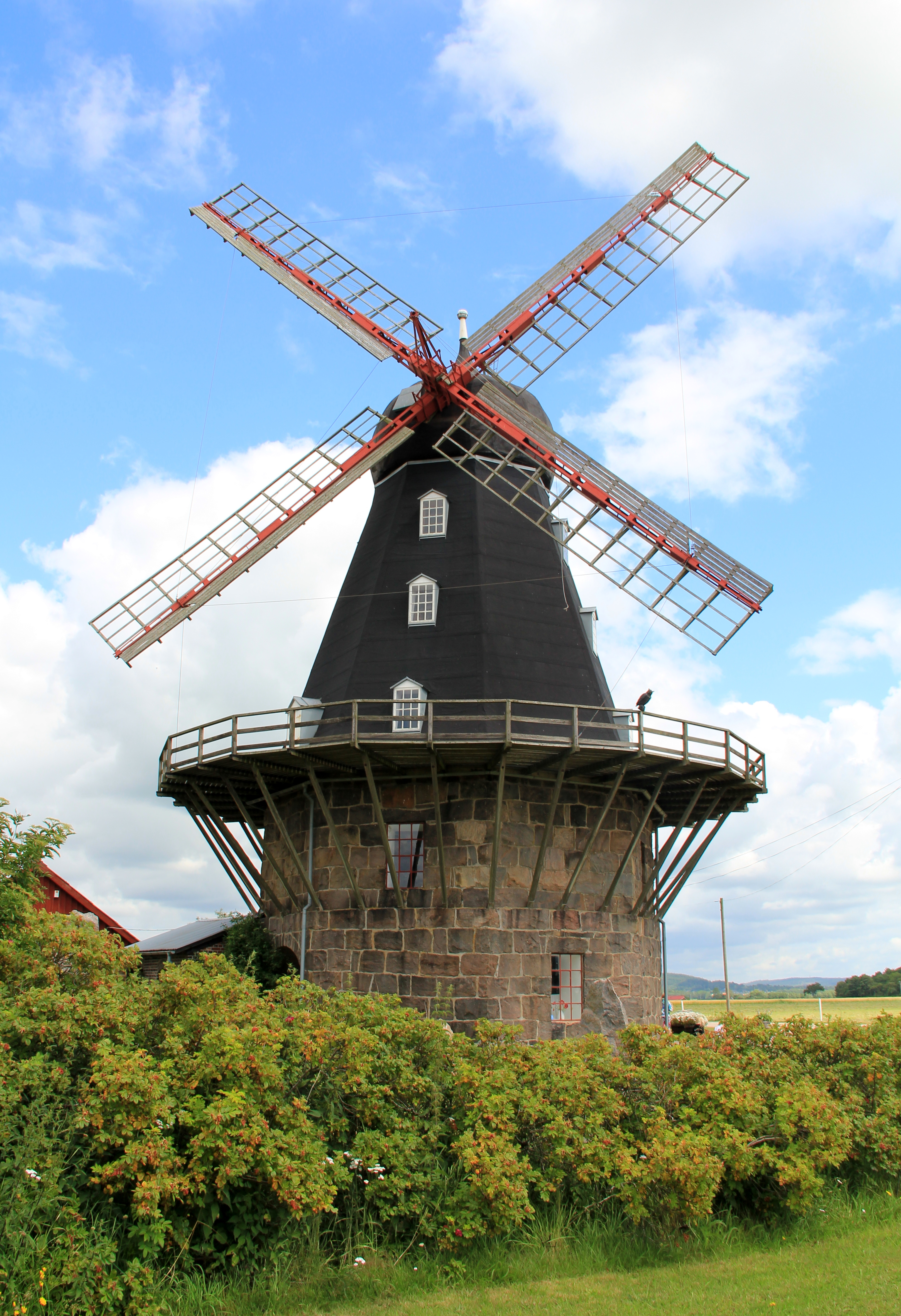 Särdals mill, outside Halmstad, Sweden